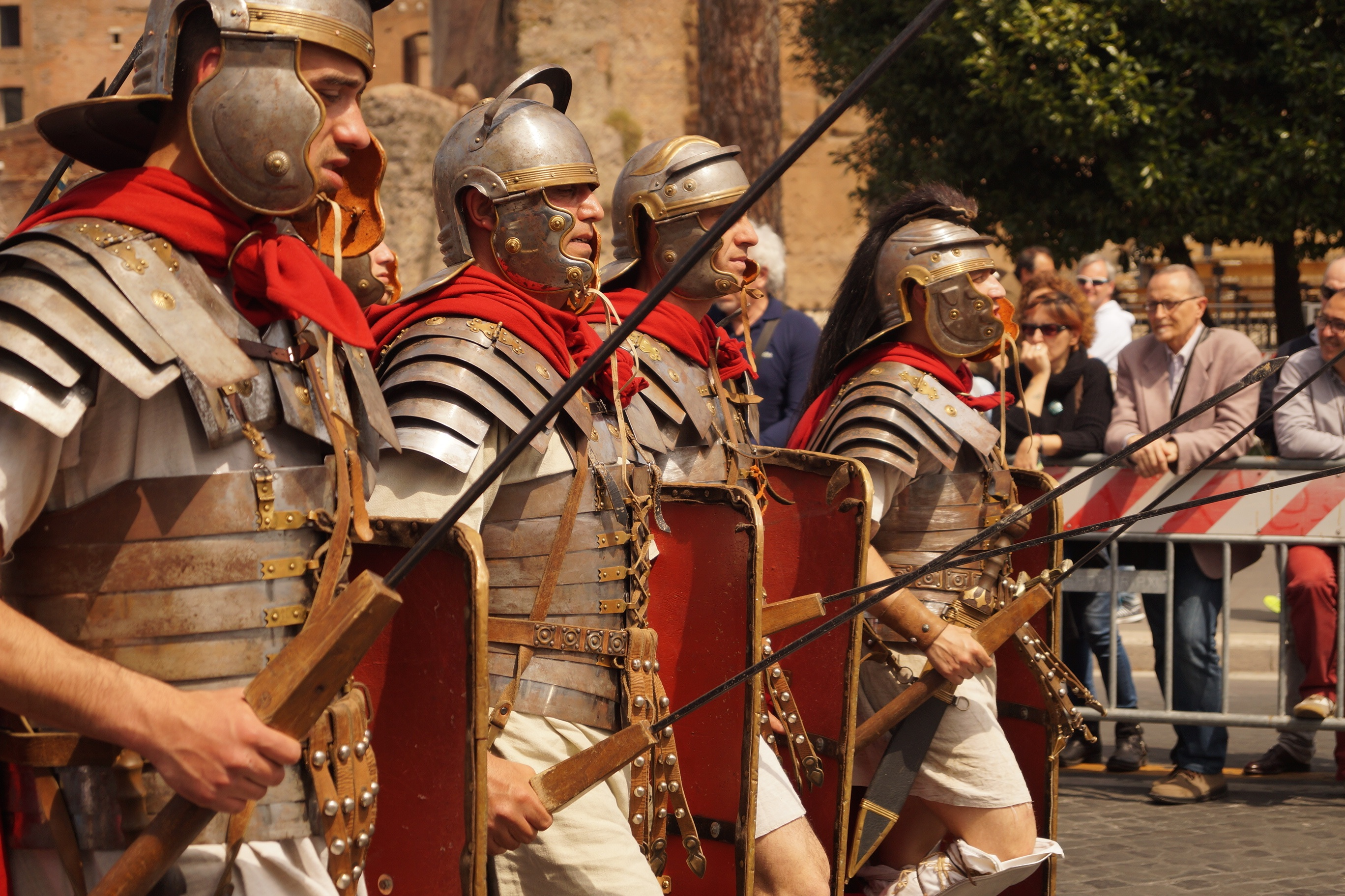 Men acting as Roman soldiers